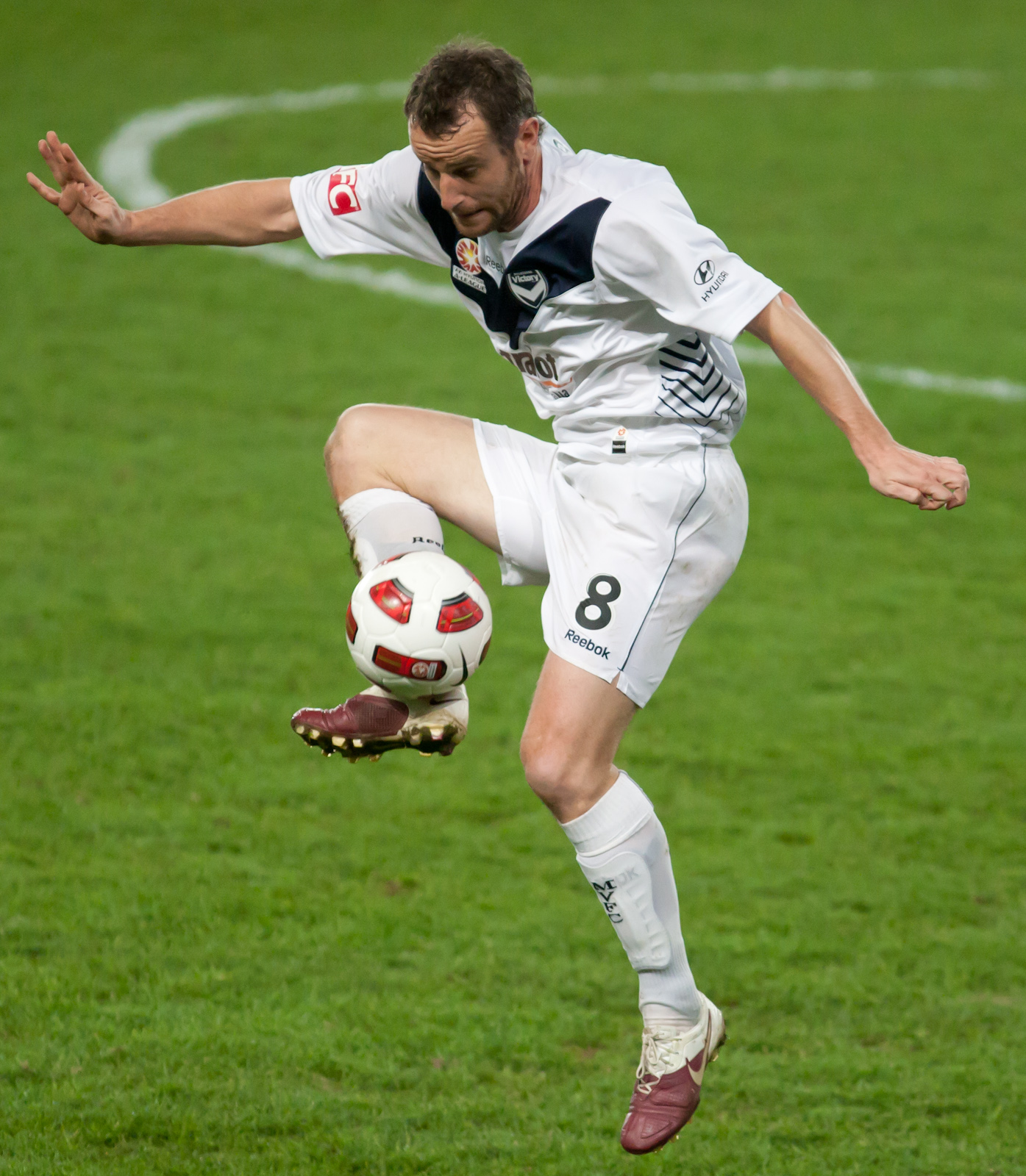 Grant Brebner playing for Melbourne Victory FC in Round 1 of the 2010-11 A-League against Sydney FC.